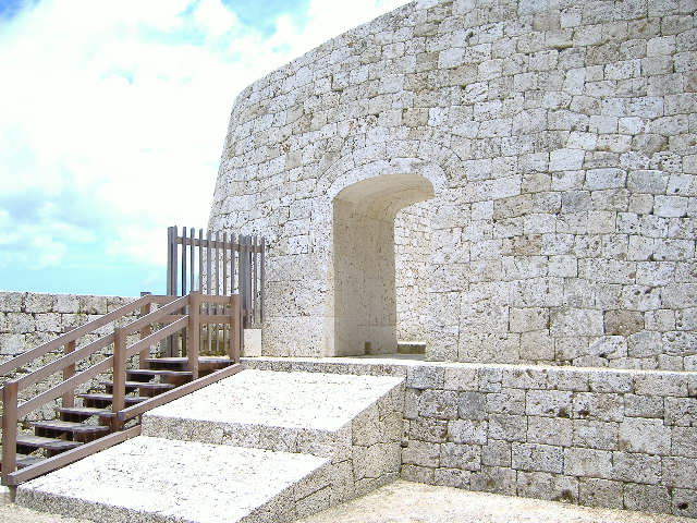 Urasoe Yodore(Royal mausoleum of the Ryukyu Kingdom)